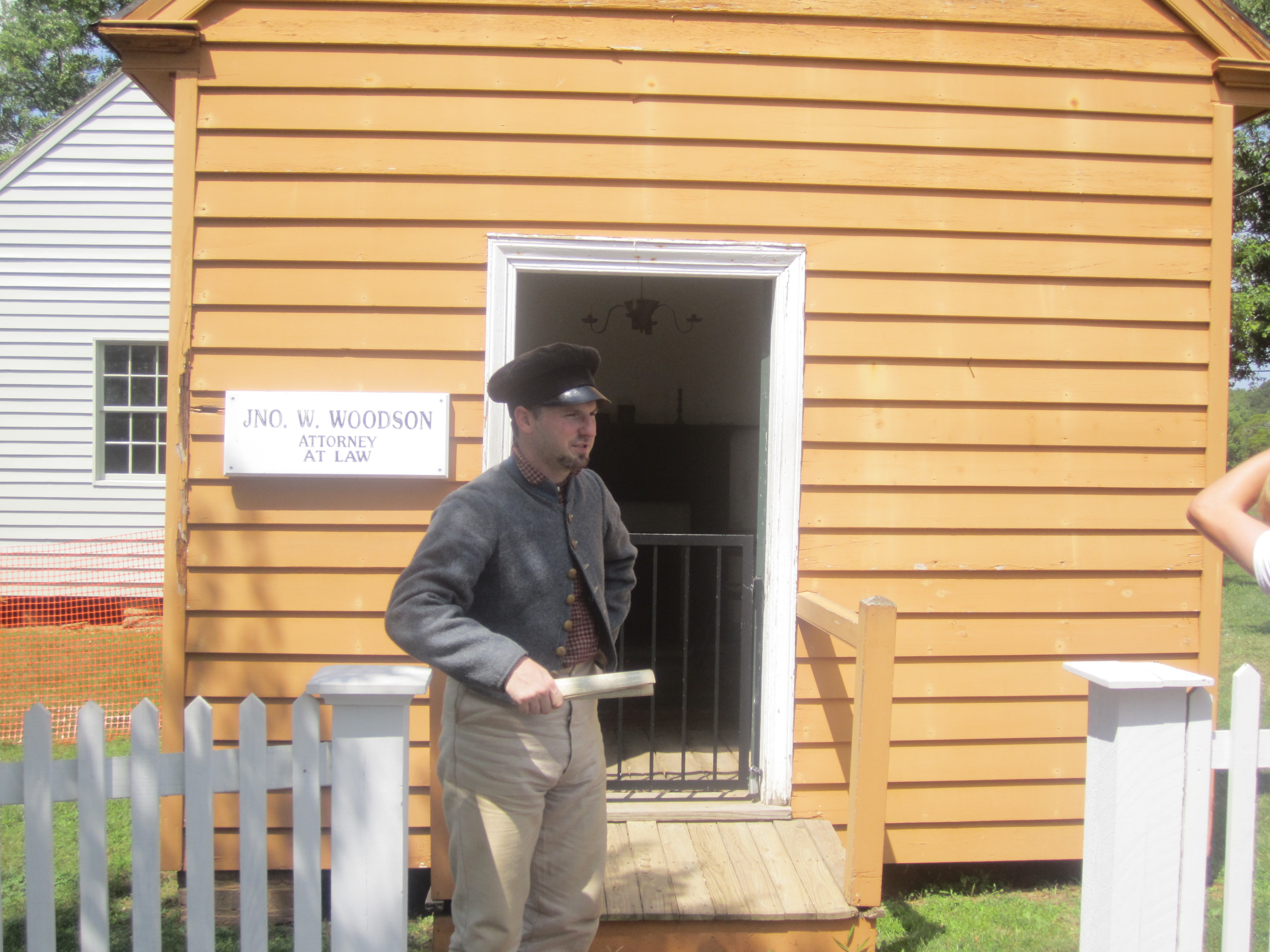 I took photo of guide at Law Office at Appomattox Court House National Historical Park in VA, using Canon camera.